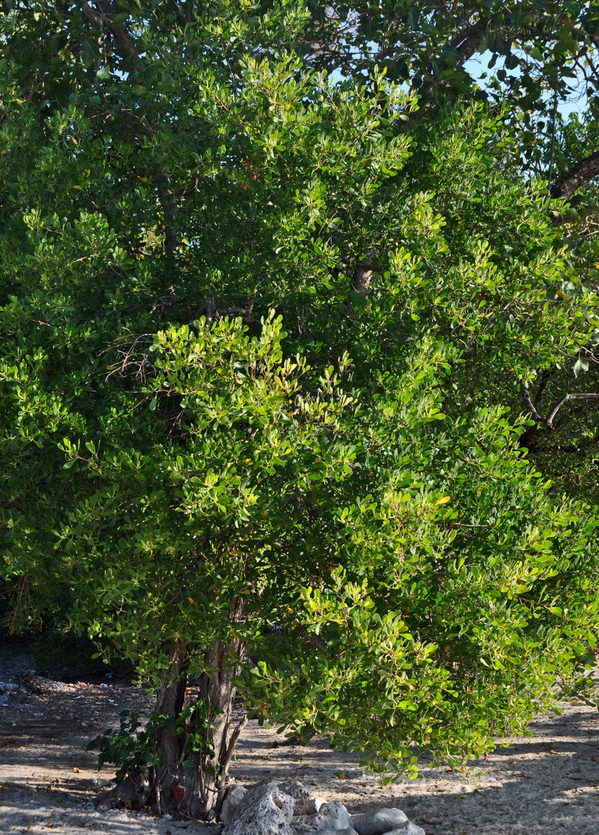 Black Mangrove (Lumnitzera racemosa) shrub, ca. 3m high; from Bama Beach, Baluran National Park, East Java, Indonesia